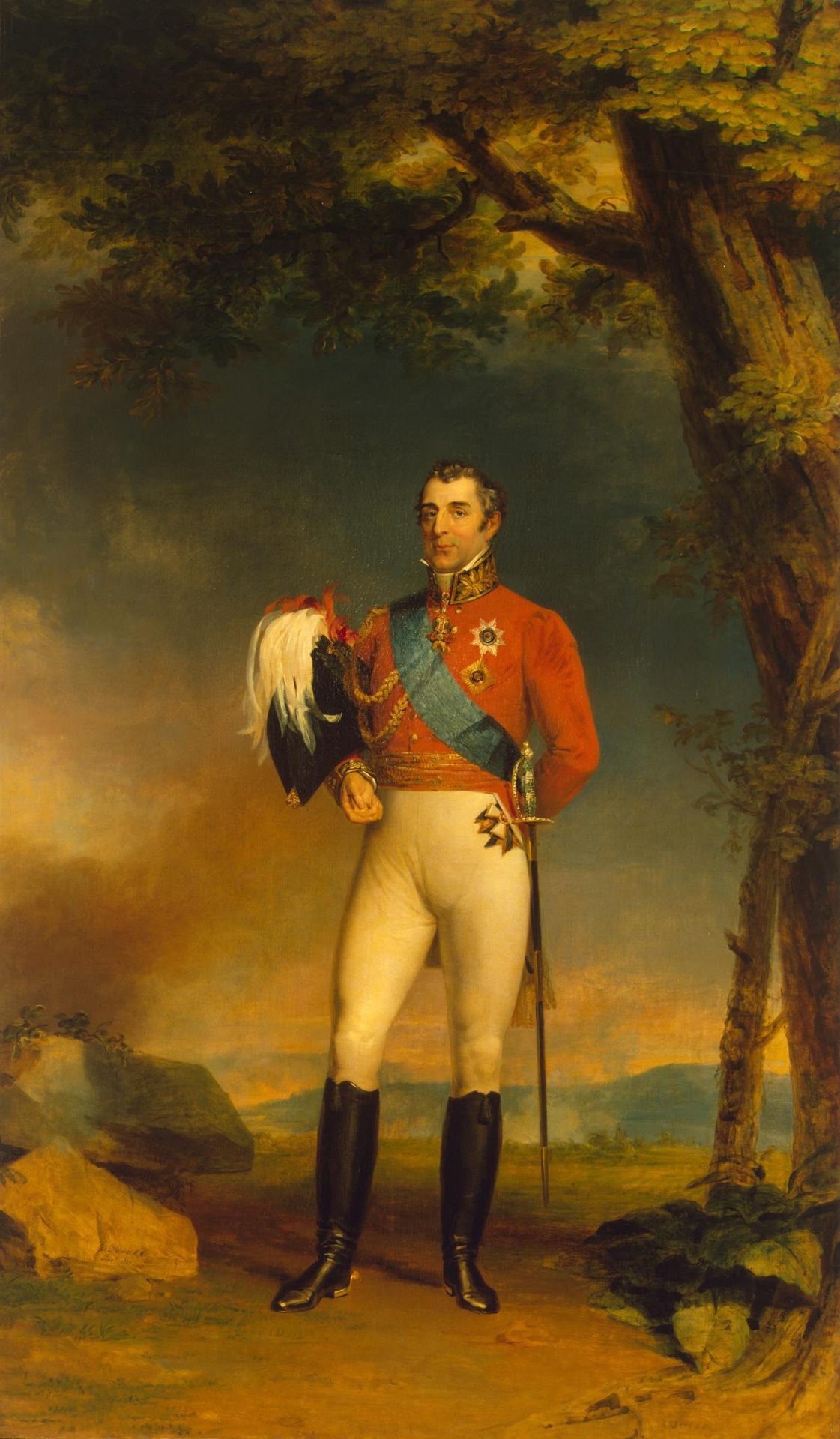 Arthur Wellesley, 1st Duke of Wellington (1769-1852) he rose to prominence in the Napoleonic Wars, eventually reaching the rank of field marshal